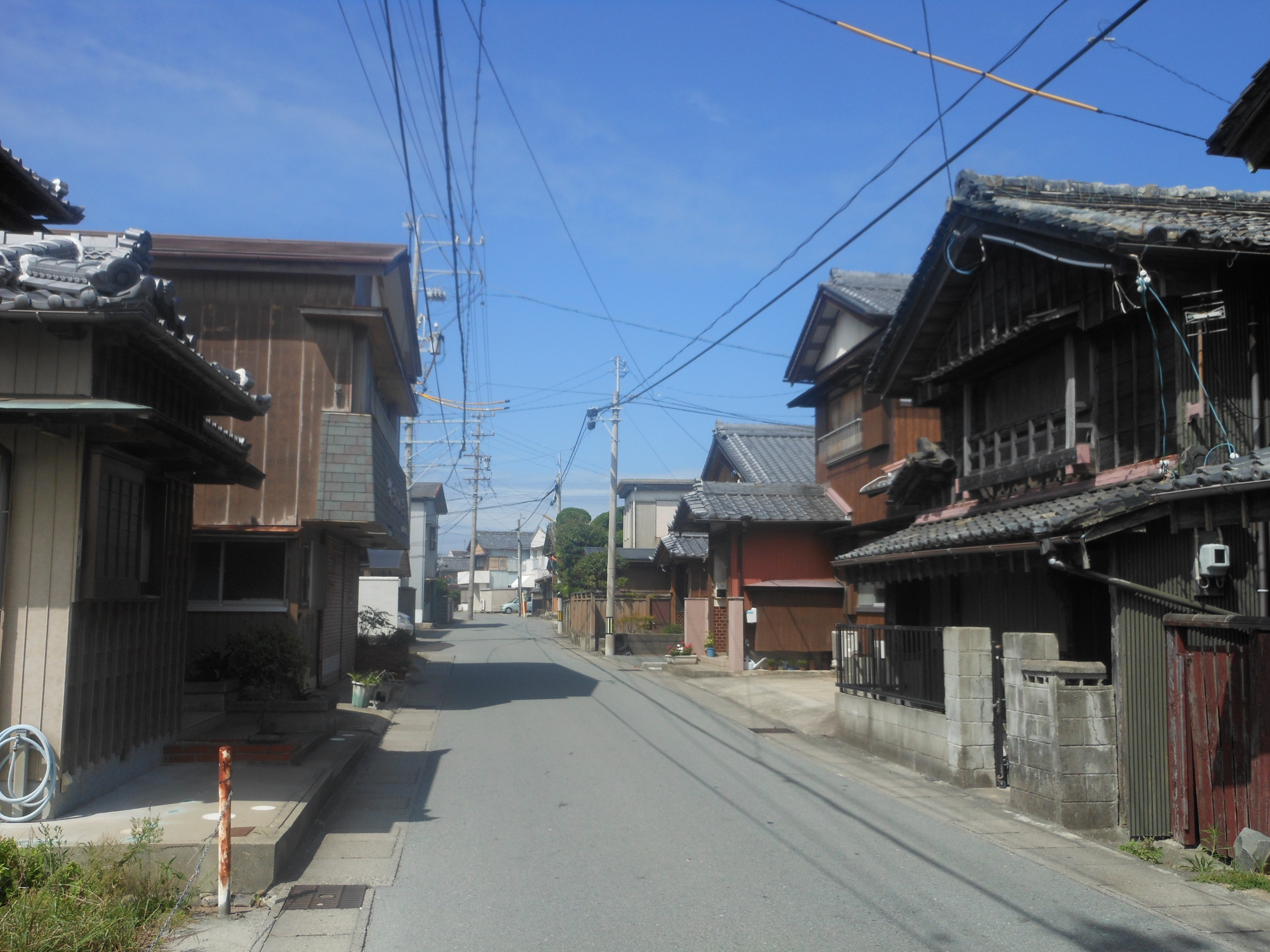 This is a landscape of Ominato, Ise city, Mie prefecture, Japan.